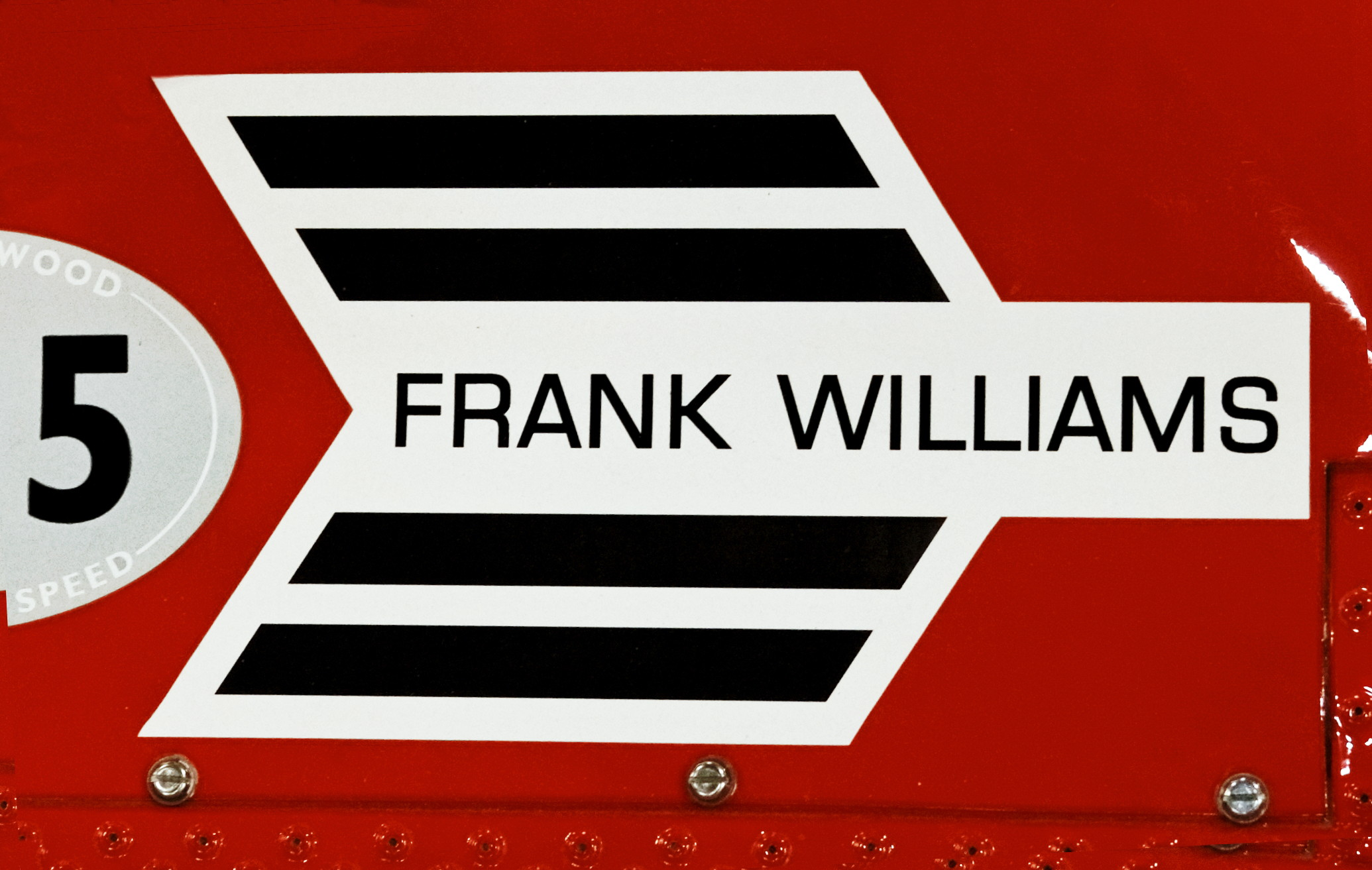 Frank Williams Racing Cars Scripture on a Williams-entered Formula One Car De Tomaso 505 (1970)